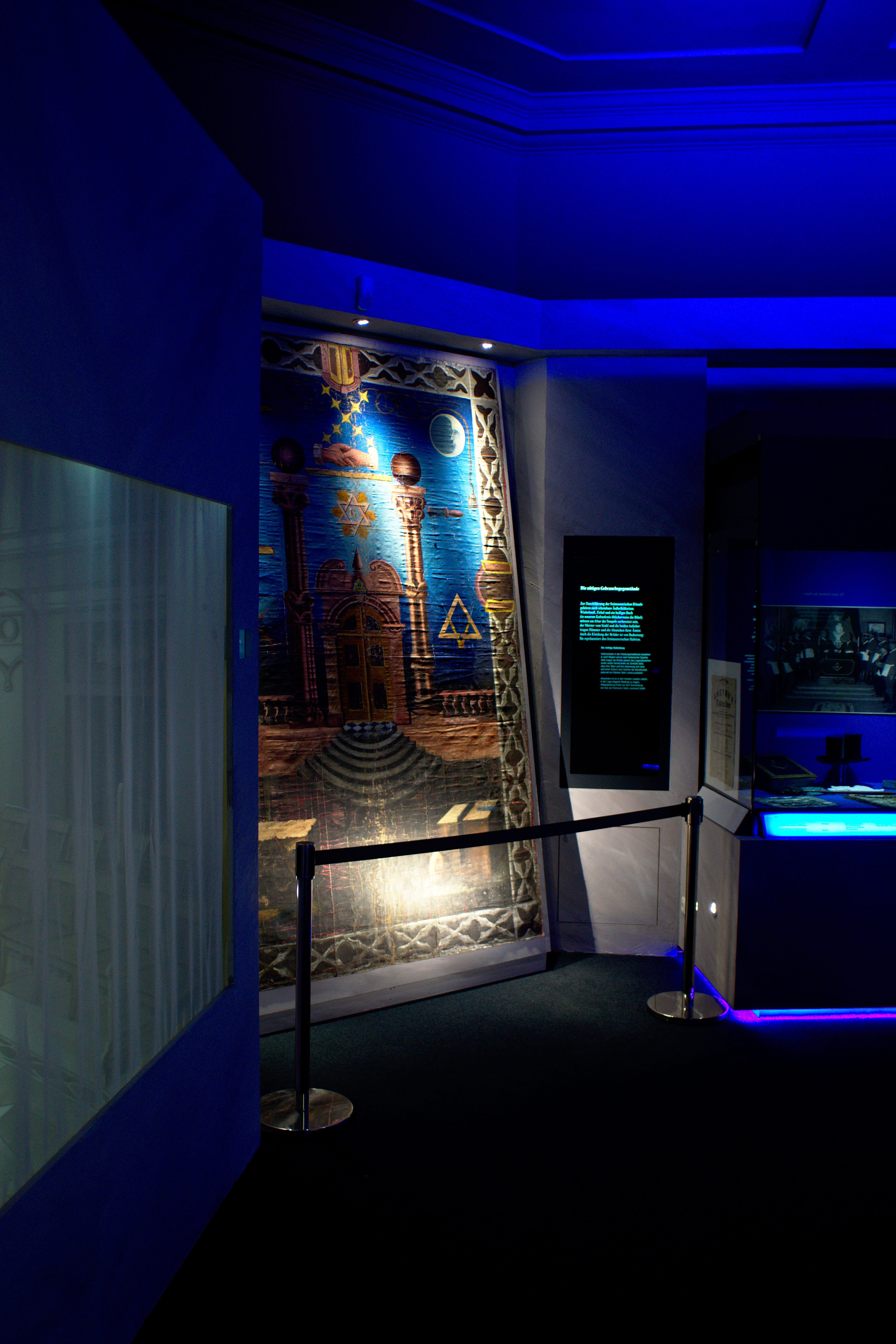 View on a tapestry in the German Freemasonry Museum in Bayreuth.